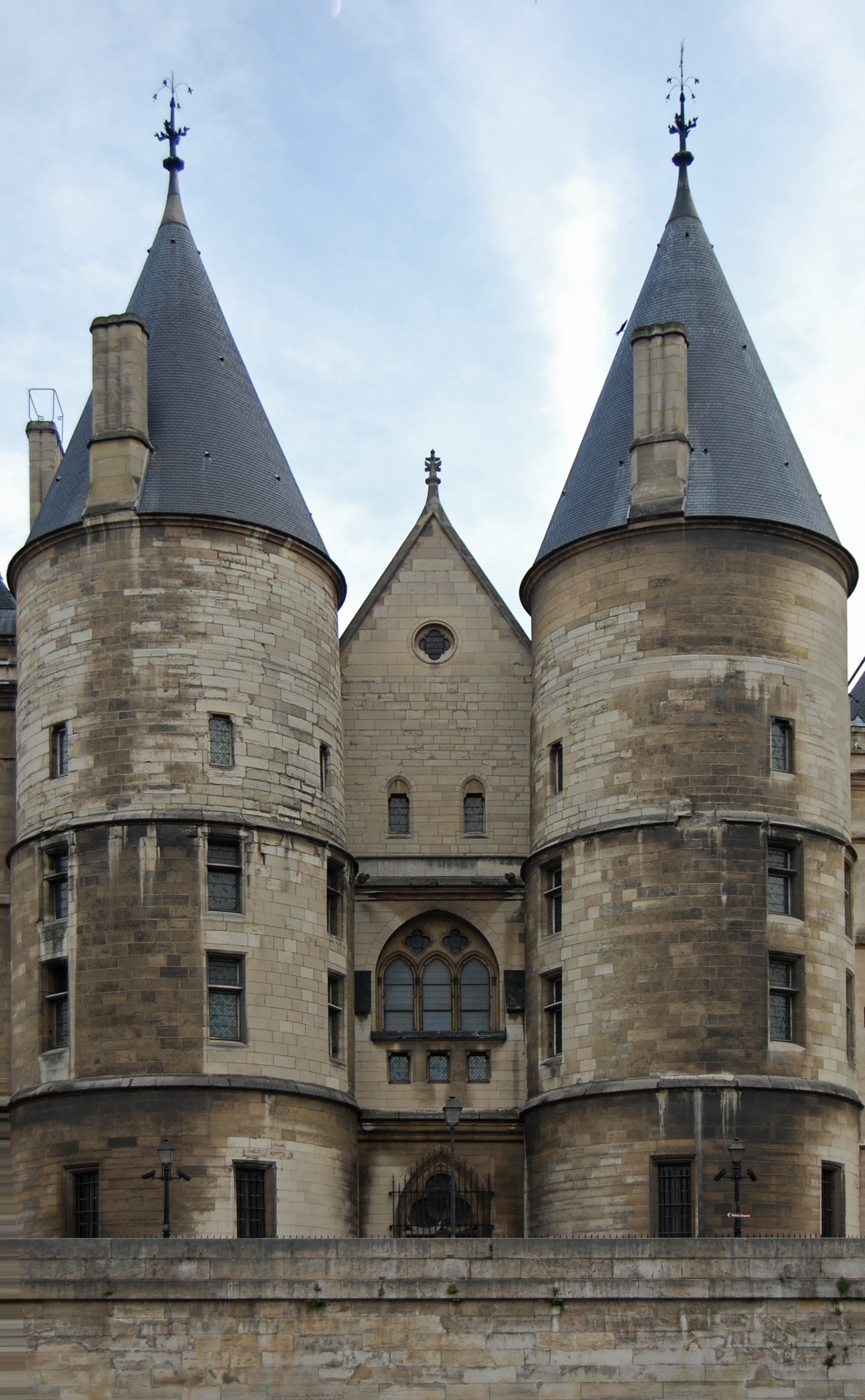 The Caesar and Silver Towers of the French prison La Conciergerie, seen from the Seine.